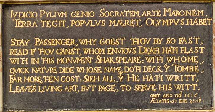 This is a simple straight-on image of the commemorative plaque on Shakespeare's funerary monument, which is in public domain since it is a work created before 1623.